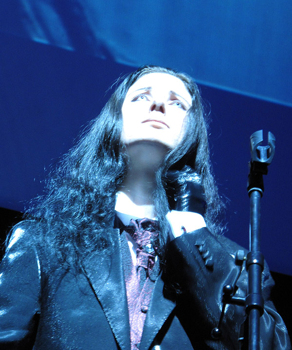 Russian rock singer Michael Draw on the concert at Central House of the Artists in Moscow